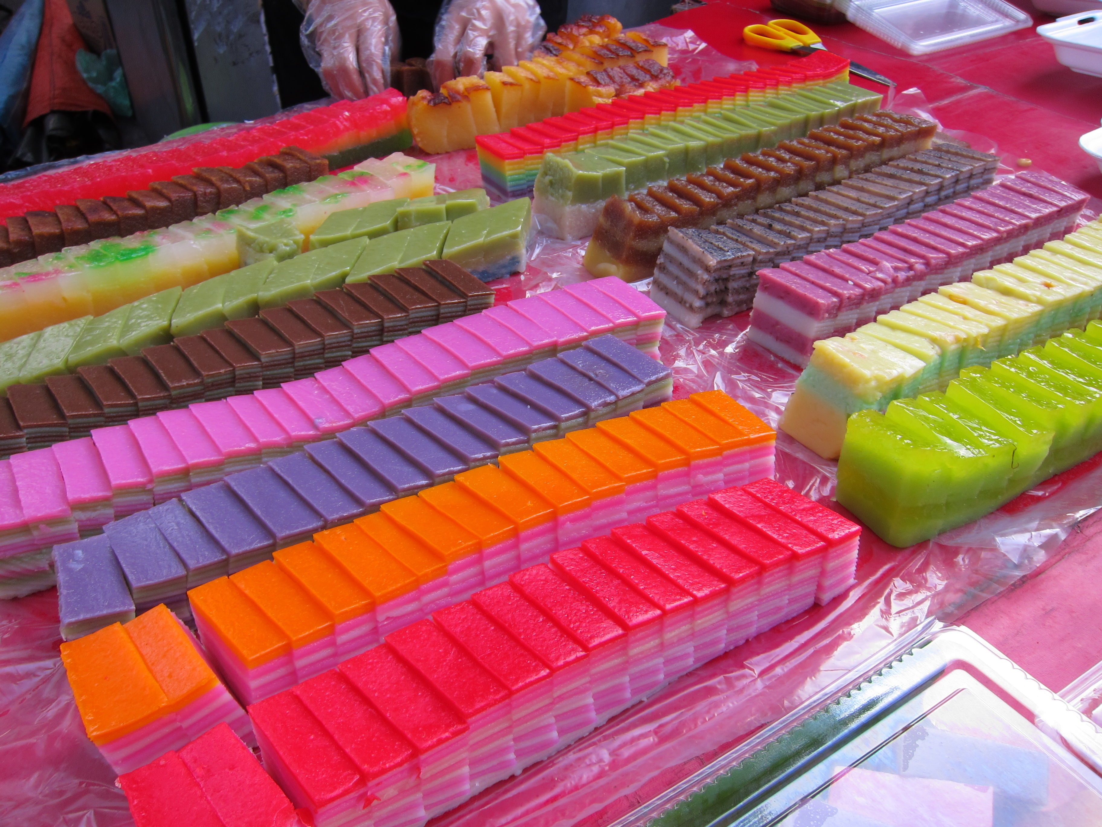 Nyonya Kuih in Different Colour